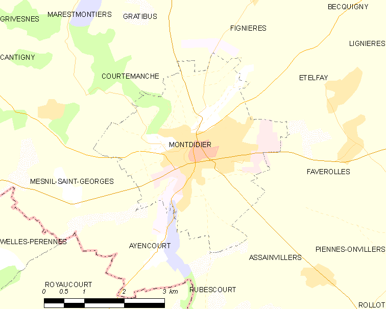 Map of French municipality Montdidier